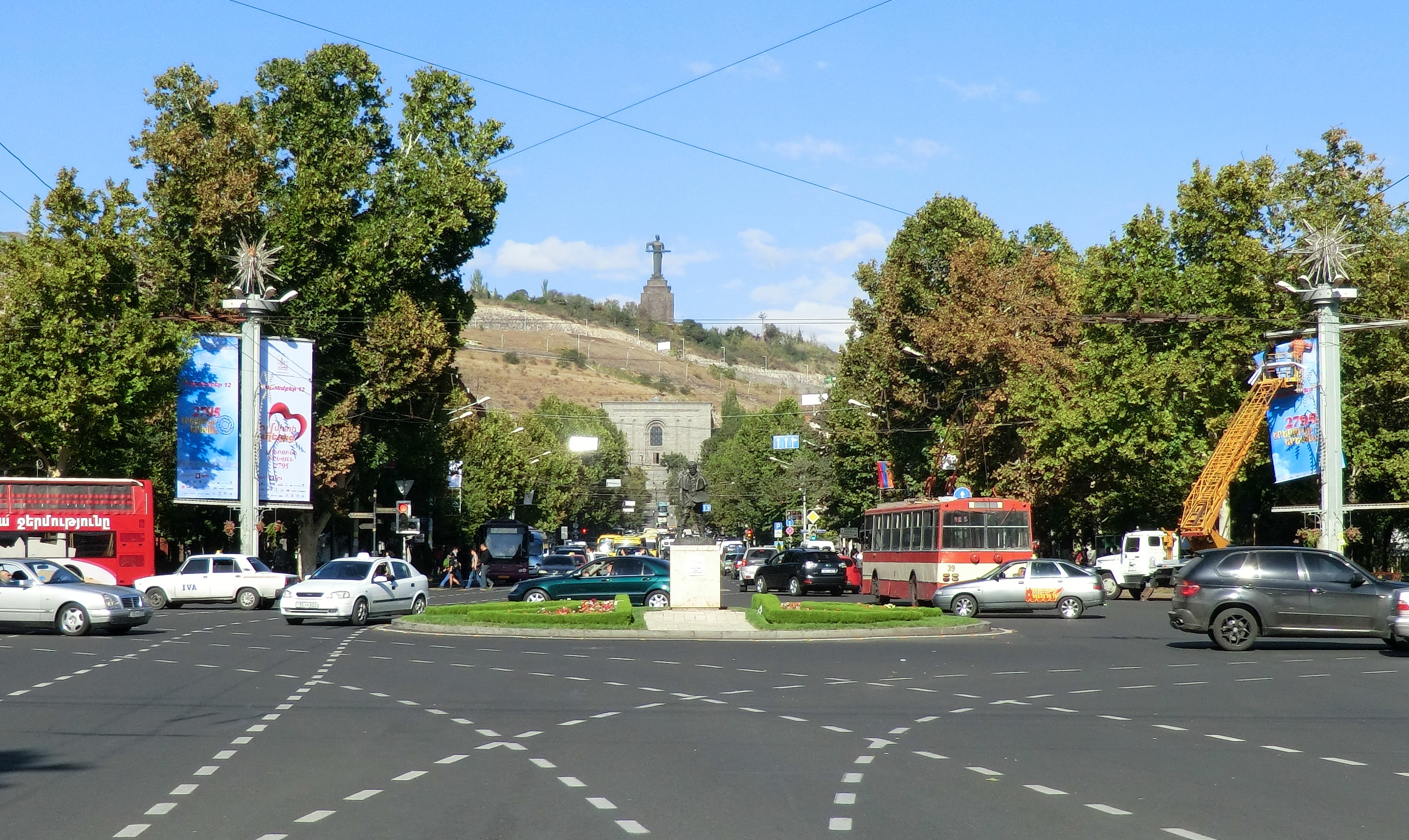 Place de France, Yerevan